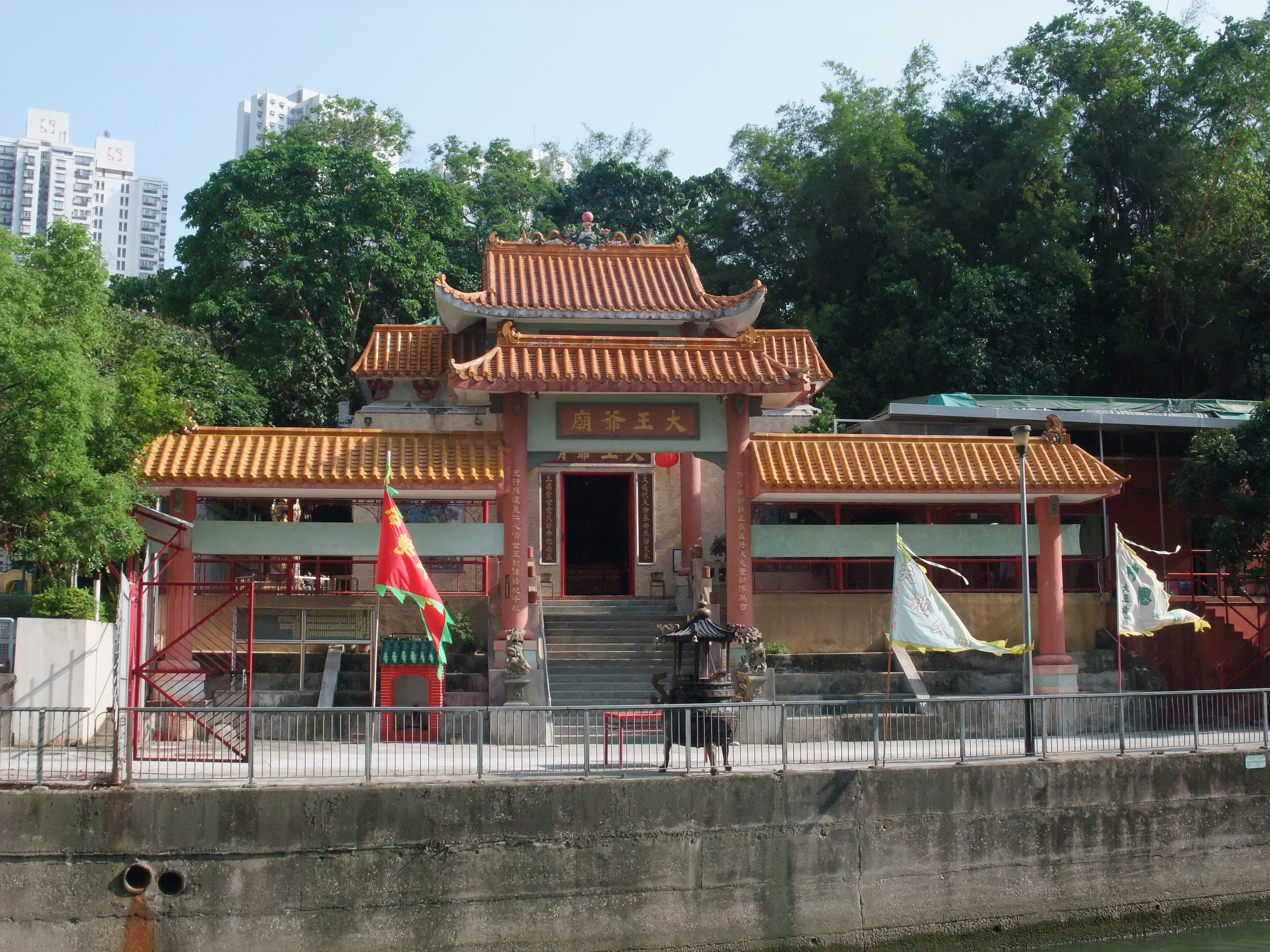 Photo of Tai Wong Ye Temple at Wong Chuk Hang